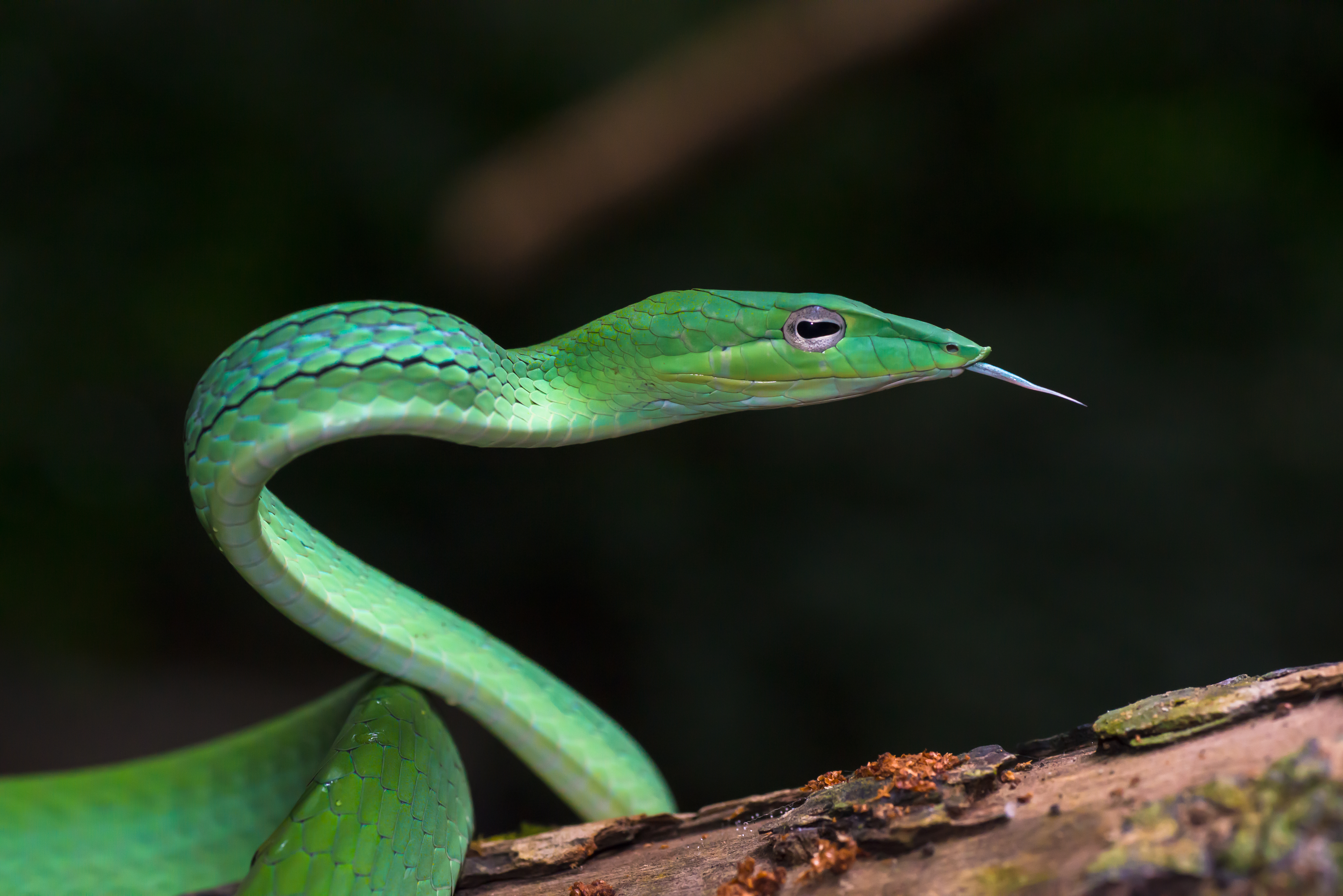 Ahaetulla prasina, also known as Asian vine snake